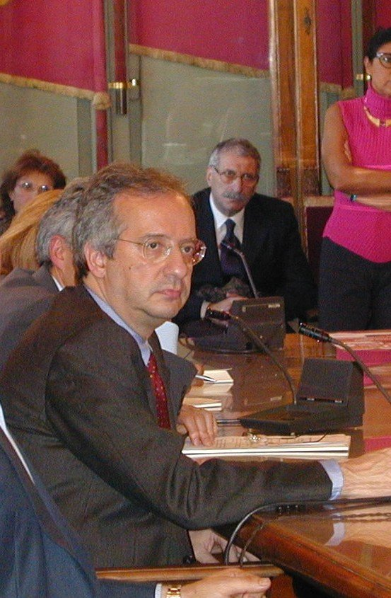 Walter Veltroni, Italian politician.